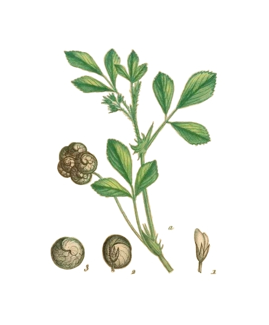 Illustration of Medicago italica.